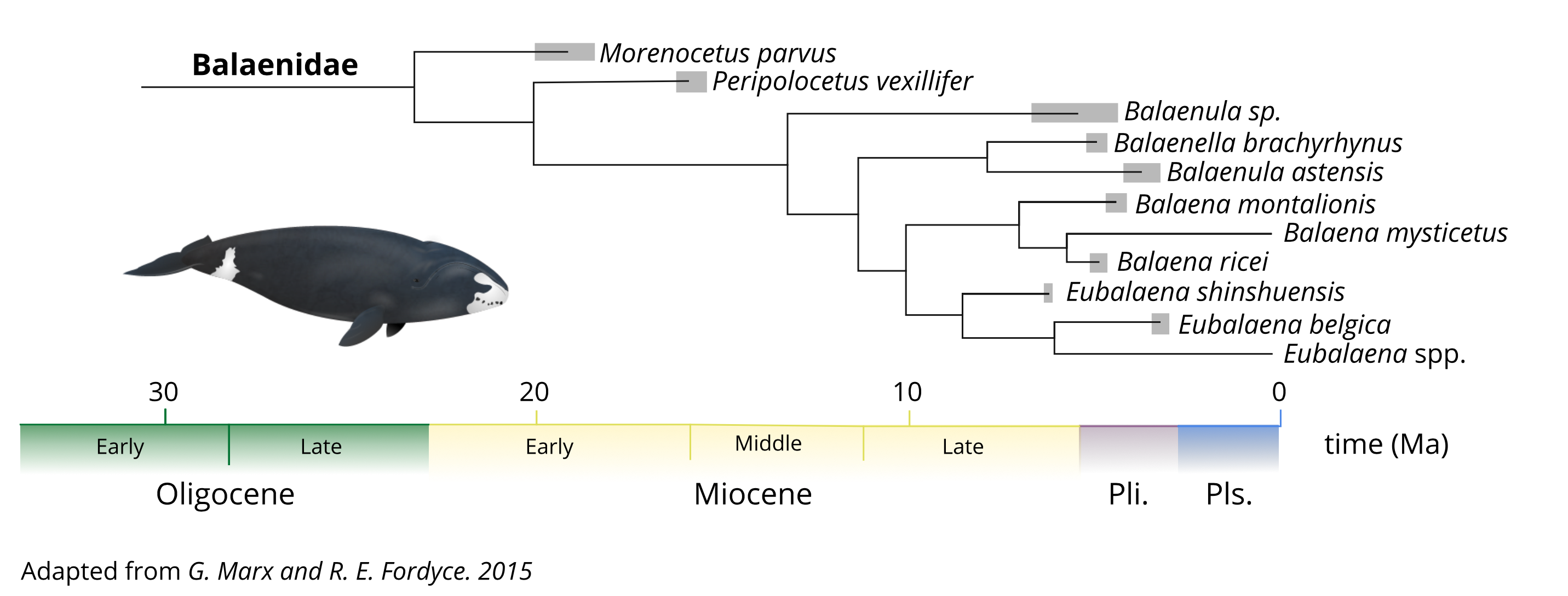 Dated total-evidence tree of Balaenidae phylogenetic relationships. Majority-rule consensus tree (showing all compatible clades; ‘allcompat’ option in MRBAYES) resulting from the combined analysis of morphological and molecular characters. Thick grey bars represent actual stratigraphic ranges. (Pli.=Pliocene; Pls.=Pleistocene)